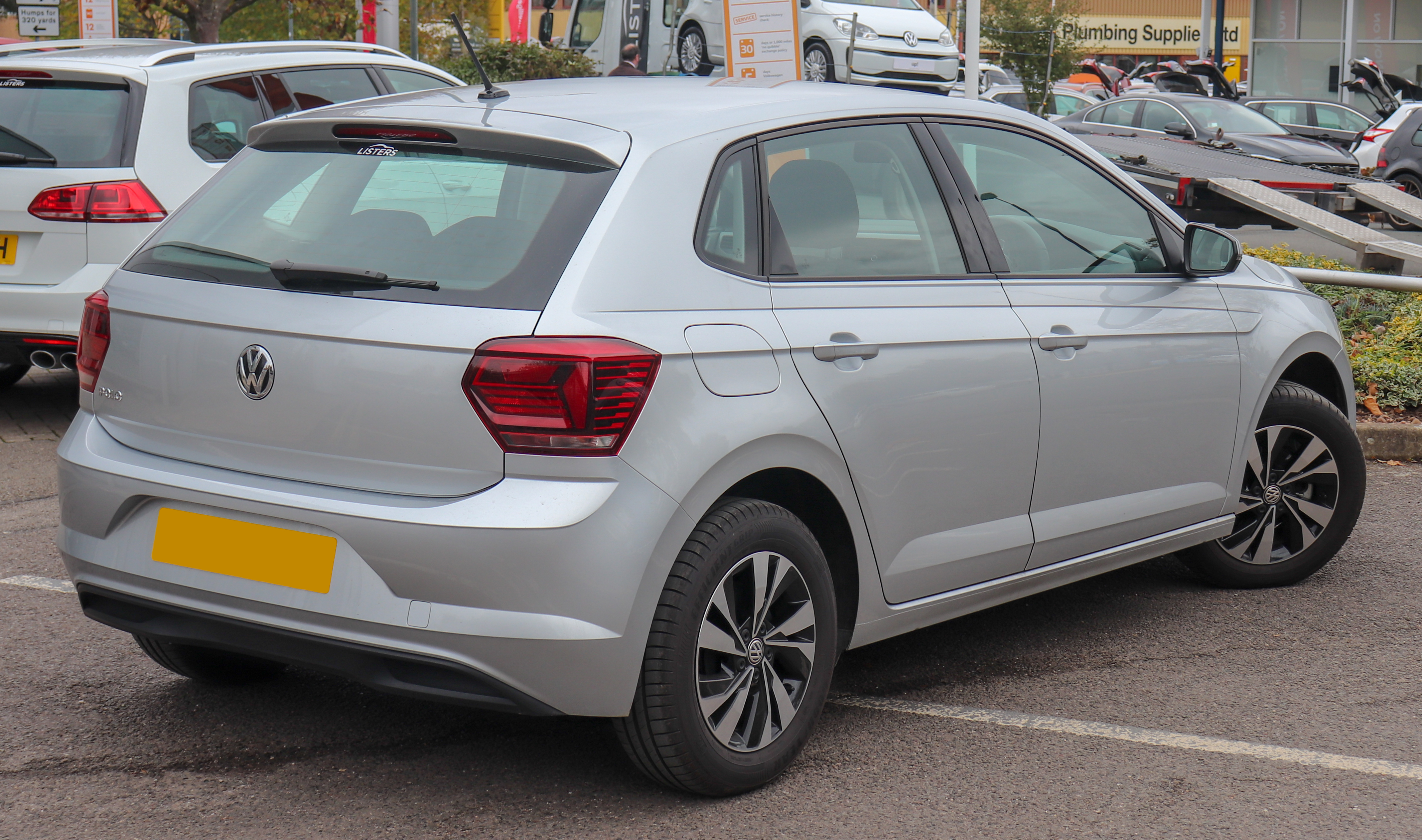 2018 Volkswagen Polo SE TSi 1.0 Rear Taken in Leamington Spa